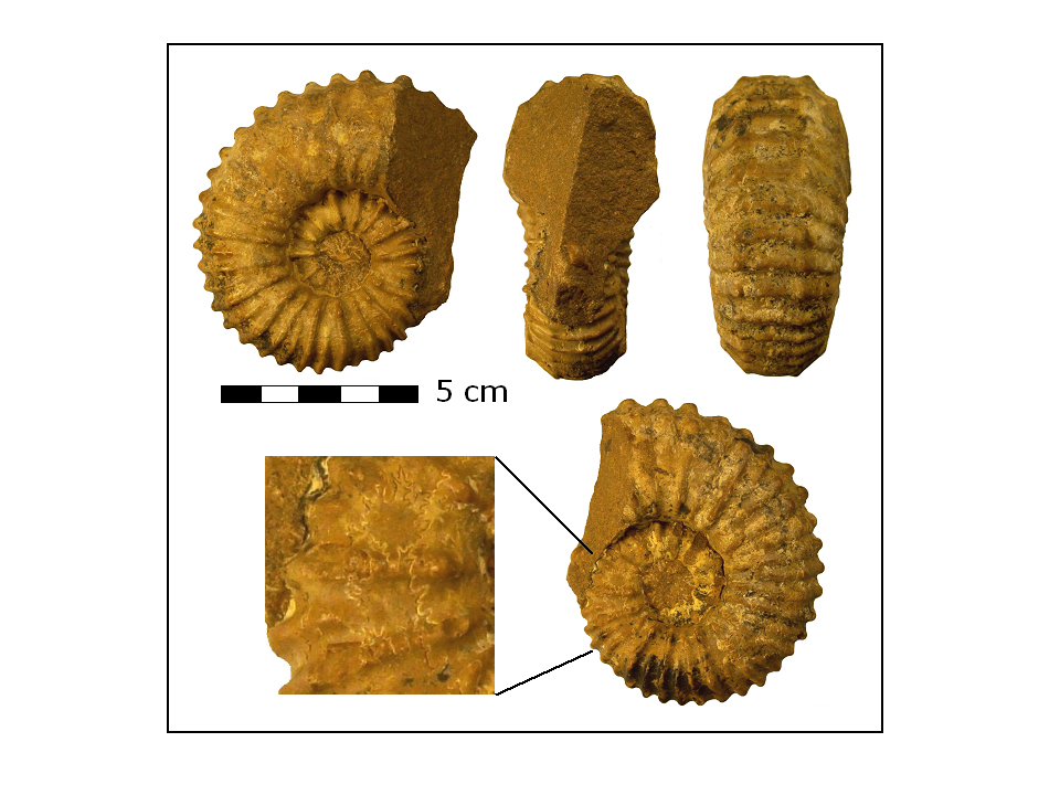 Mantelliceras sp. (juvenile specimen) from Early Cenomanian of Madagascar.